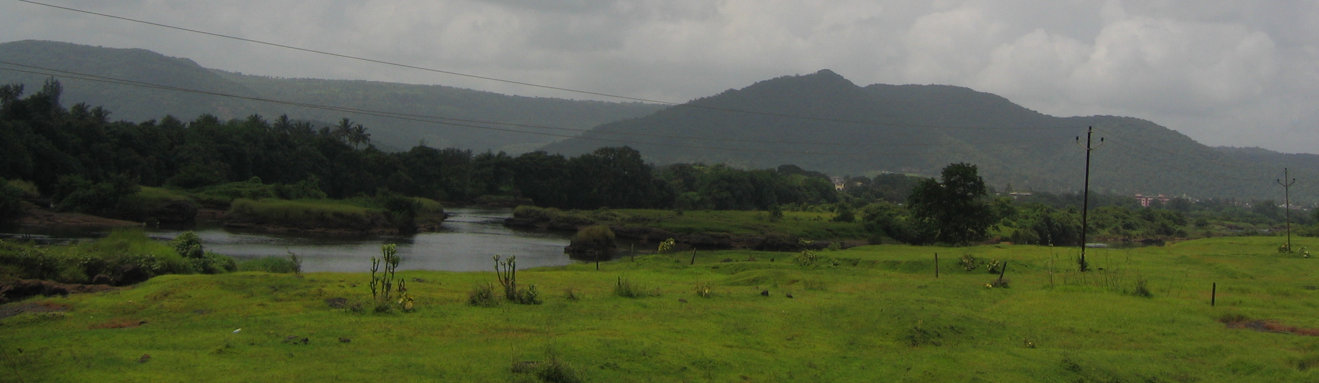 Konkan - Western Ghats - Scenes from India's Konkan Railway